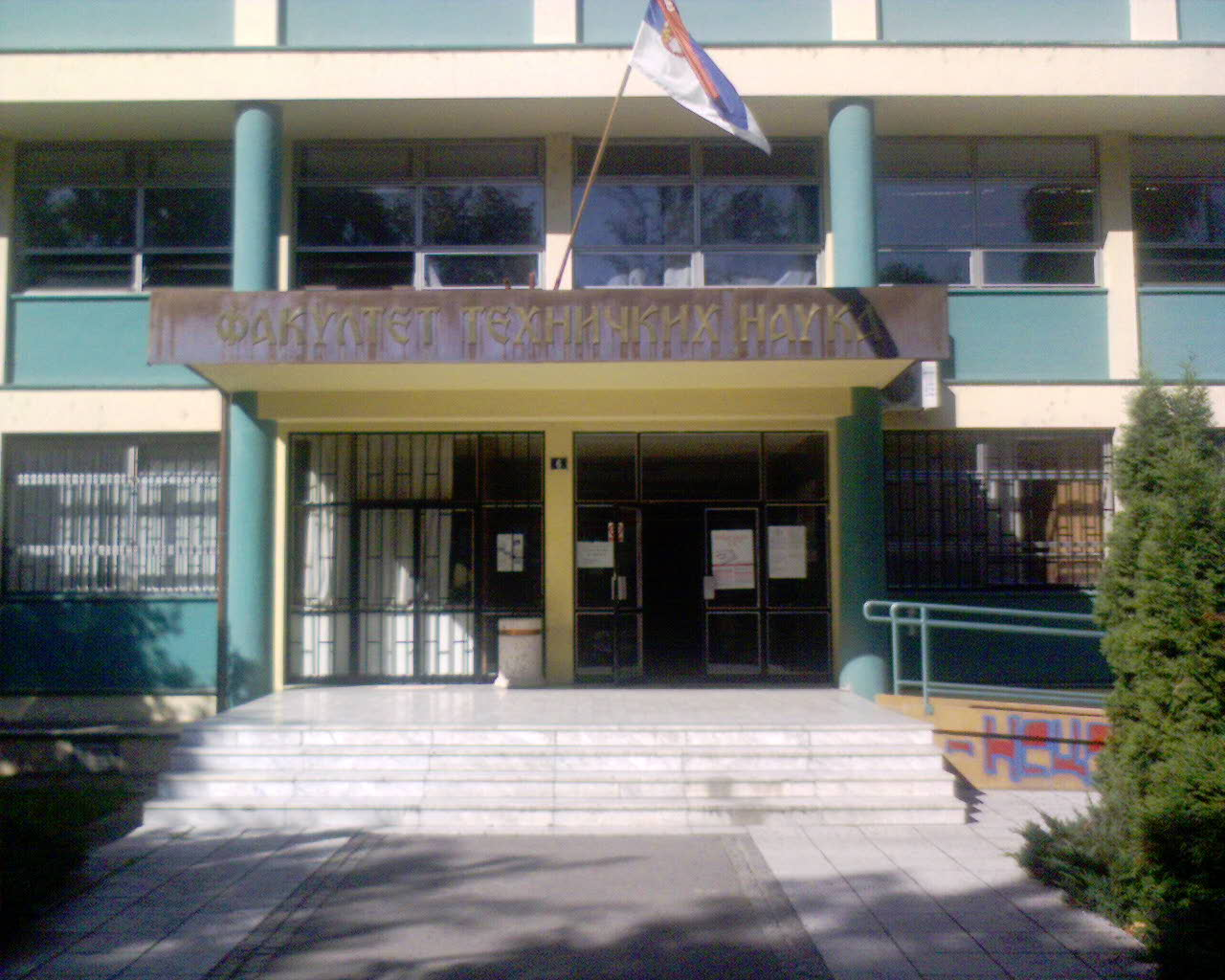 Entrance of FTN main building